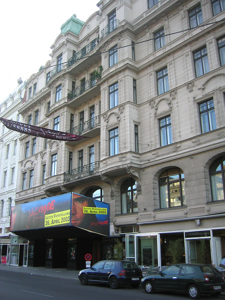 Wien, Theater an der Wien, Vorderhaus (entrance wing, built by Fellner & Helmer architects). Advertisement for the musical, "Jekyll and Hide"